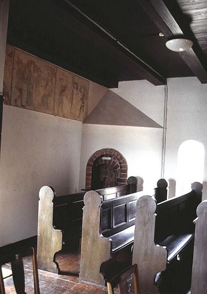 Tirsted Kirke (church)